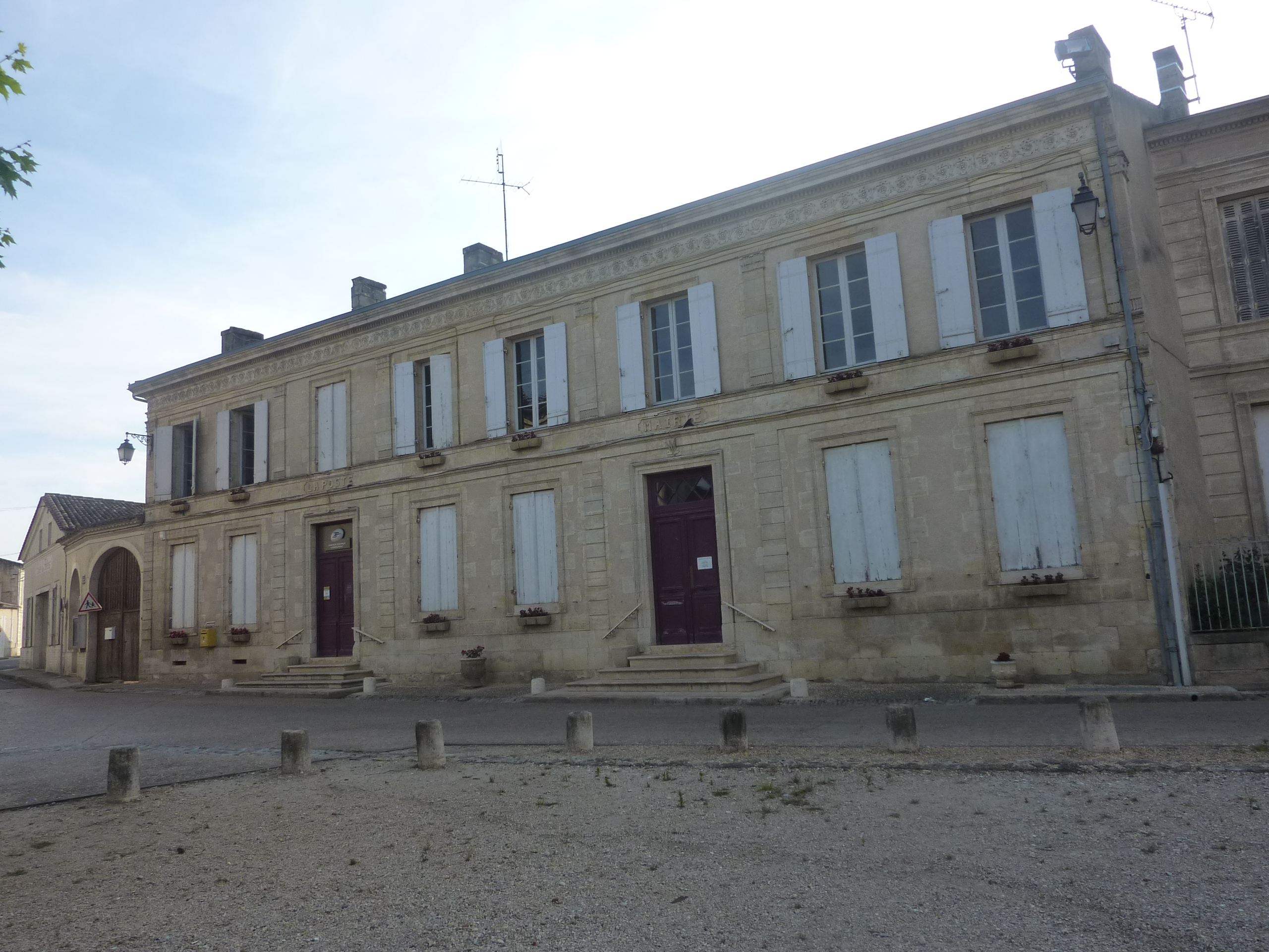 Town hall of Vertheuil, Gironde, France